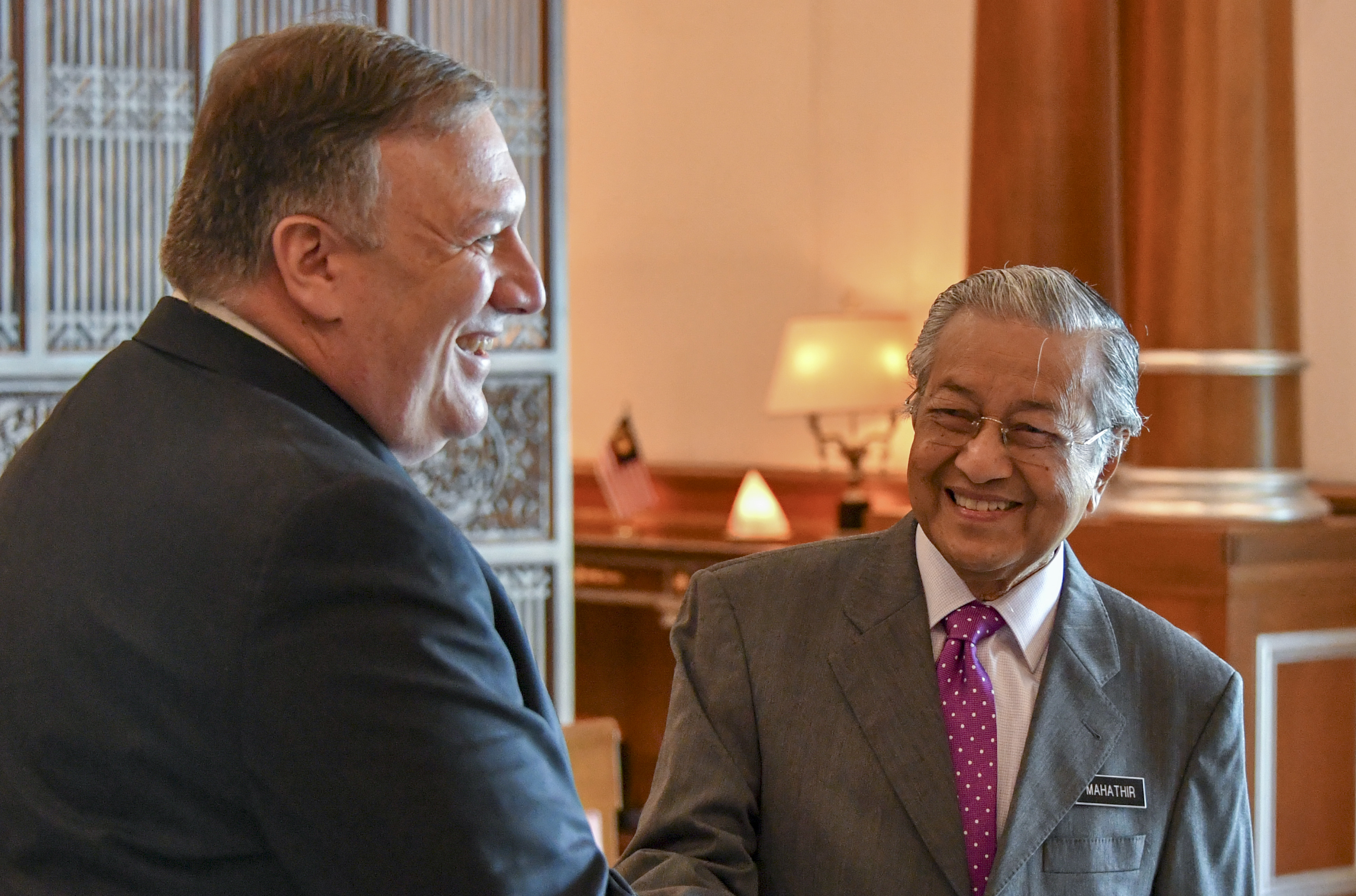 Secretary of State Michael R. Pompeo meets with Malaysian Prime Minister Tun Dr. Mahathir Mohamad at the Prime Minister's Office in Putrajaya, Malaysia, on August 3, 2018.